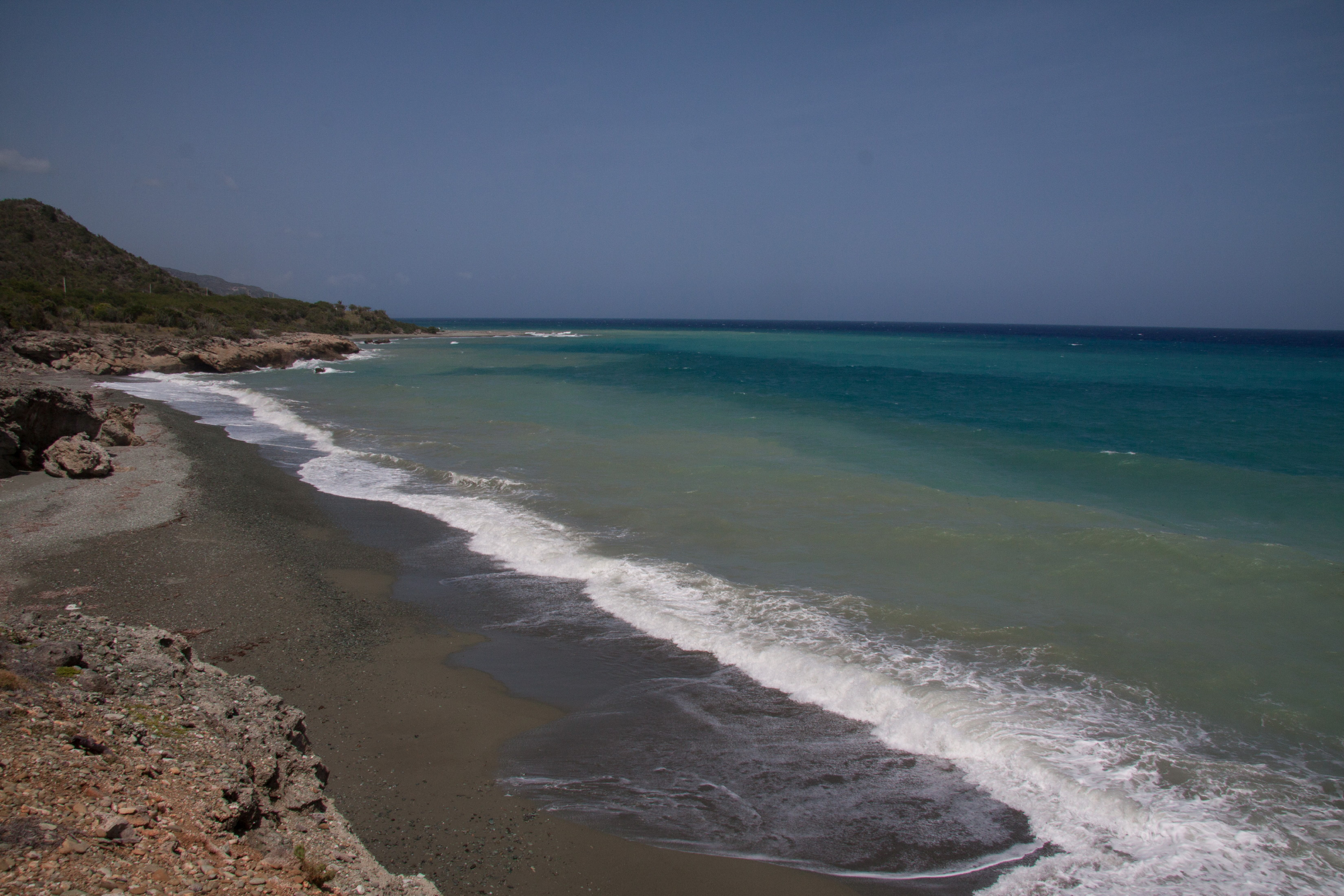 Coast near San Antonio del Sur, Guantánamo